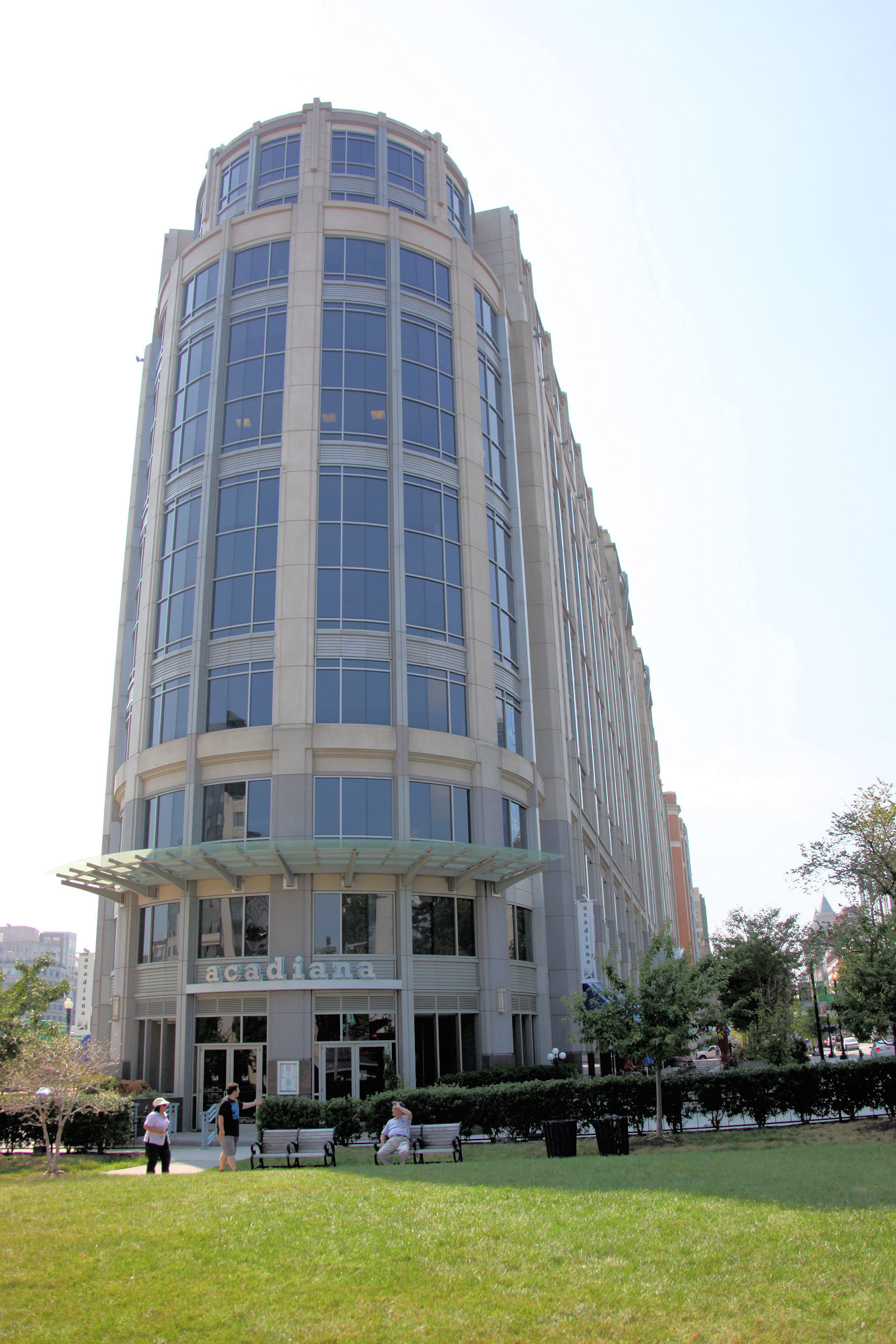 View of the east side of 901 New York Avenue NW in Washington, D.C. The $54 million, 11-story, 530,000-square foot office building is owned by Boston Properties, and constructed by Clark Construction Co. in 2005. The architect was Davis Carter Scott of McLean, Virginia. The facade is polished granite and two-toned precast concrete, and the building inclues a three-story atrium lobby, four levels of underground parking, a rooftop deck, and a six-story monumental stair on the top floors.